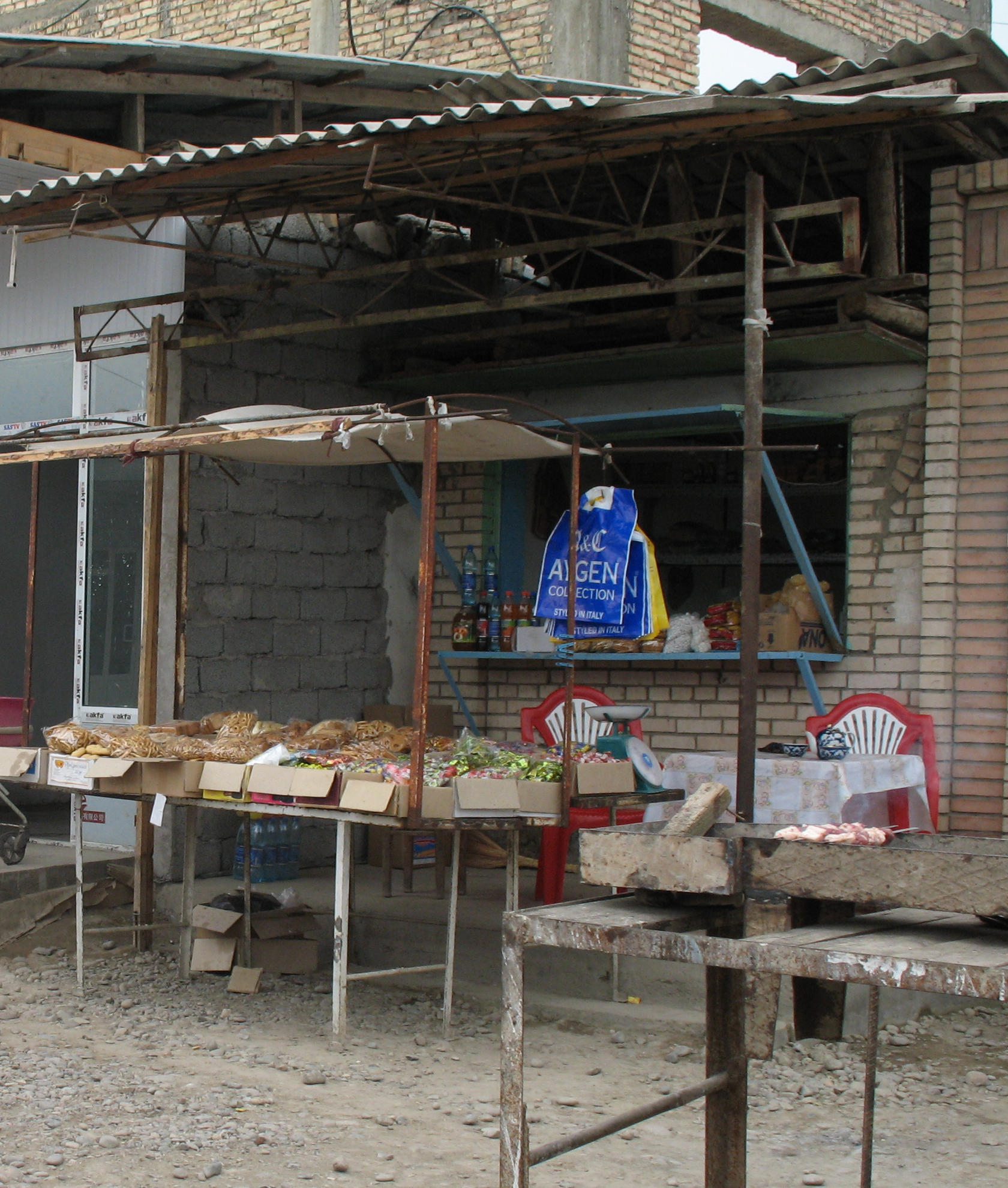 Bazaar in Baxt — in Sirdaryo Province, Uzbekistan.